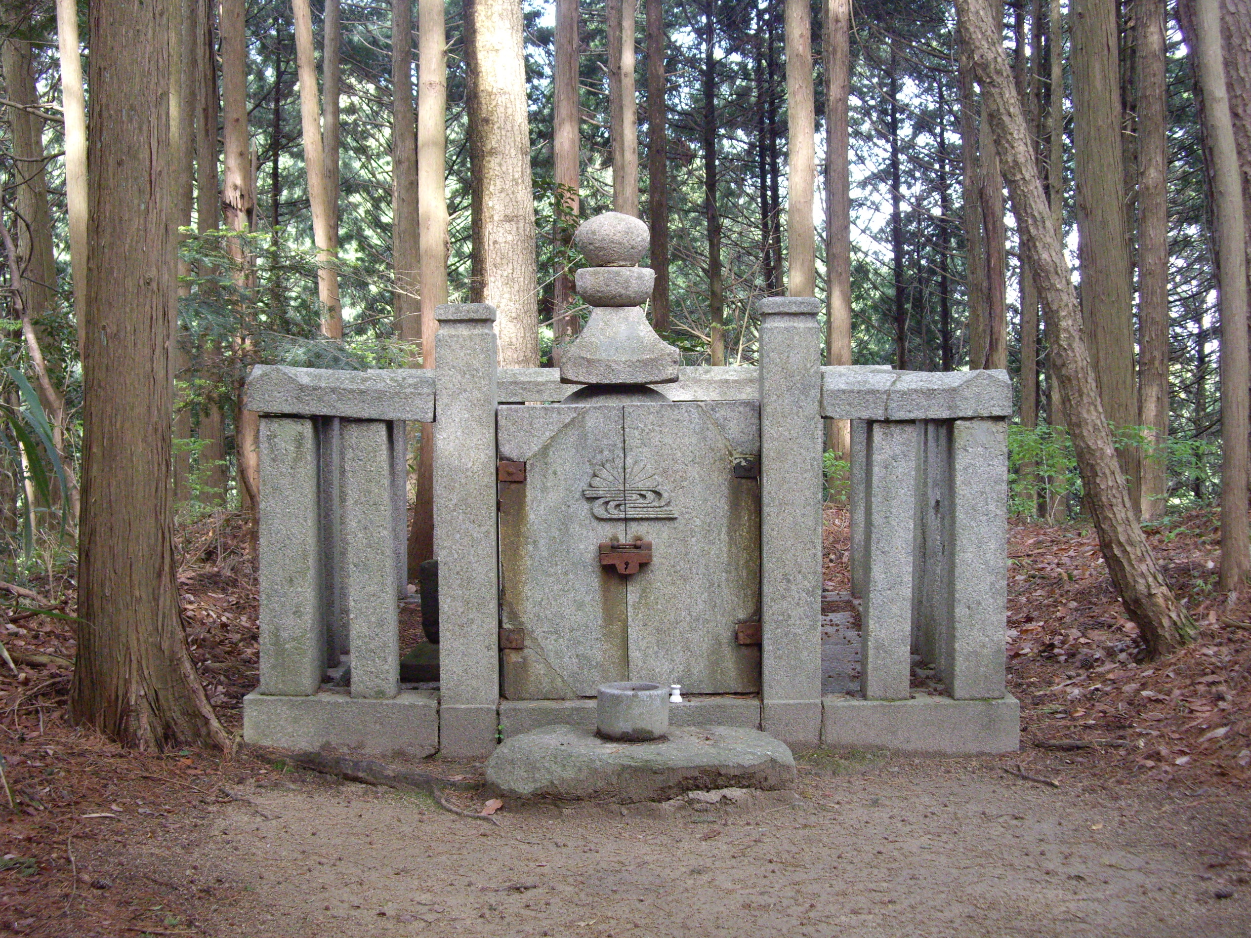 The grave of Kusunoki Masanori, in Chihayaakasaka, Osaka Prefecture, Japan